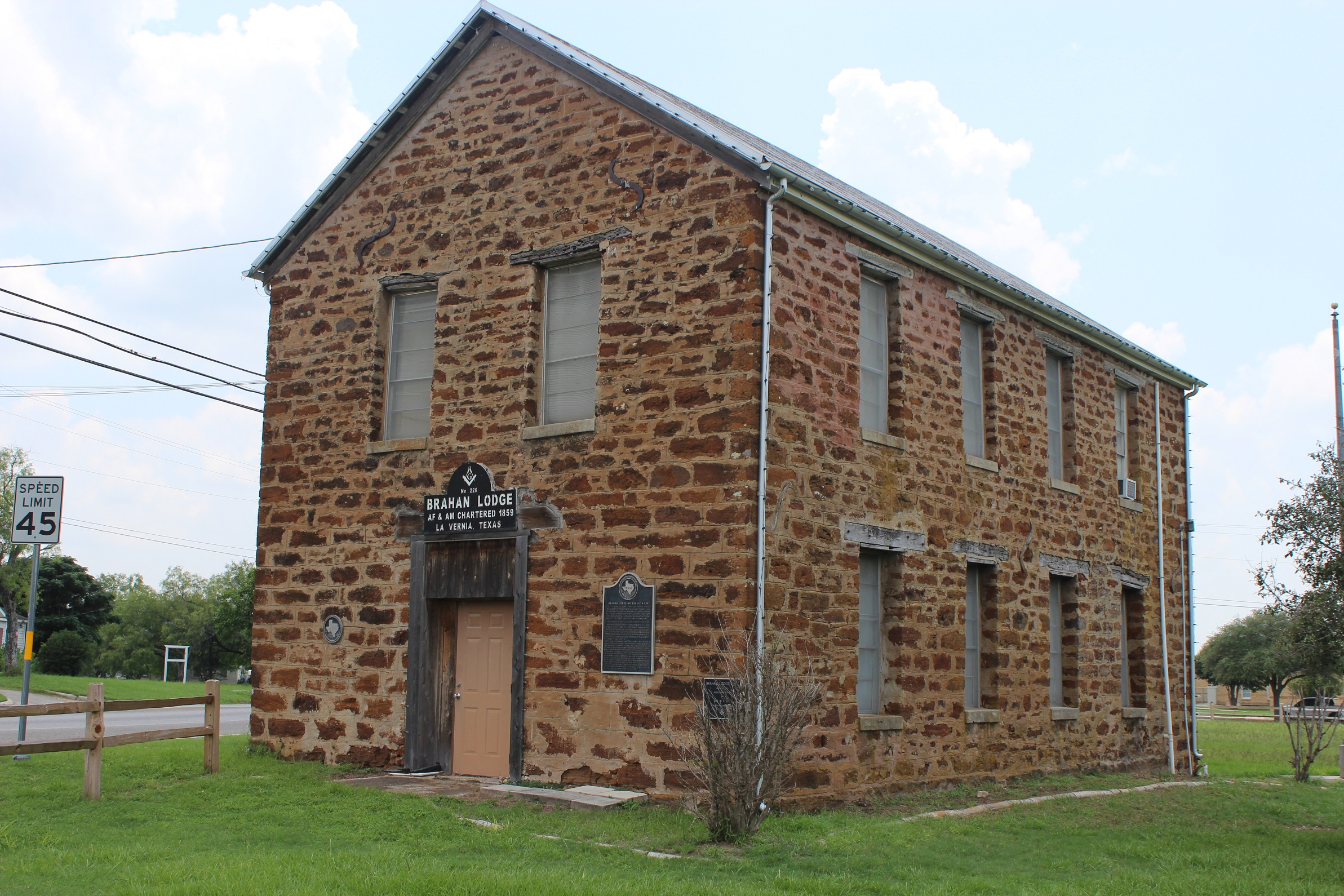 Brahan Lodge 226, A.F. & A.M.. Set to work U.D. June 23, 1858. Chartered June 16, 1859. Named for Dr. Robt. W. Brahan. John Rhodes King, first worshipful master. Members included veterans of Texas War for Independence, Mier Expedition, Mexican War, Indian campaigns. They quarried stone, hauled it to site by ox-cart, completed hall 1871. In it churches met; children were educated. Members served in every American war; in Civil War were in Hood's Texas Brigade, Terry's Texas Rangers, Parsons' Texas Cavalry, Cibolo Guards, Mustang Grays -- from Chickamauga to Atlanta to Mansfield to Appomatox. To Brahan Lodge veterans of that war this marker is dedicated: Robert Adams, Irvin H. Armstrong; Thos. H. Barry, James Edwin Beck, Haywood Brahan, Gen. Robt. W. Brahan, Emery C. Barker, M.A. Broach, Sanford Brown; Stephen T. Cook, R.B. Curry, H. Fournah, T.B. Fowler, Ed Frances; W.F. Gardner; Bennett Henderson, Connally F. Henderson, S.L. Herron, David H. Houston, Ross Houston, Russell Houston, J. Humphries; T.D. James, J.T. Johnson, John Rhodes King, W.A. King, Felix A. Knox, V.R. Knox; R.N. Leigh, Robt. Lenox; Levi Maddox, J.G. Maddox, Emil Morosa, Sam H. Milam, Wm. Morris, J.M. Morrison, R.G. Murray, Chas. A. McAlister, Sam W. McClain, Richard D. McGee, G.M. McKay; J.K. New, D.C. Newton, Jas. Newton, N.M. Newton, Wm. Northcraft; C.R. Patton; T.J.C. Reese; Jas. D. Sanders, Wm. D. Scull, J.A. Sharpless, Robt. Sharpless; J.W. Thompson, Eli Toole, Jas. M. Trainer; L.J. Vivian; J.E. Watkins, R.B. Watkins, John A. Wells, L.S. White, Hugh W. Wiseman, Wm. R. Wiseman; Henry Yelvington. (1965) #487